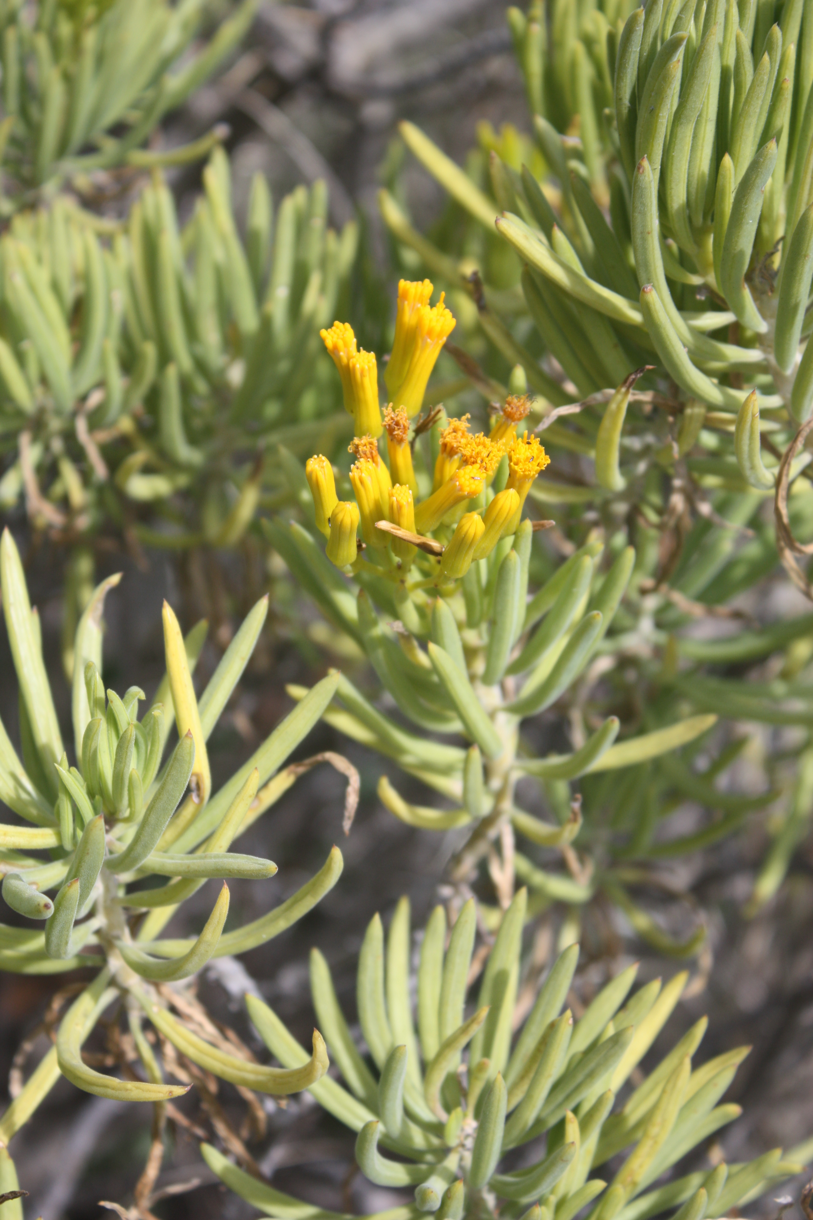 Senecio barbertonicus, Mountain Sanctuary Park, Magaliesberg, South Africa